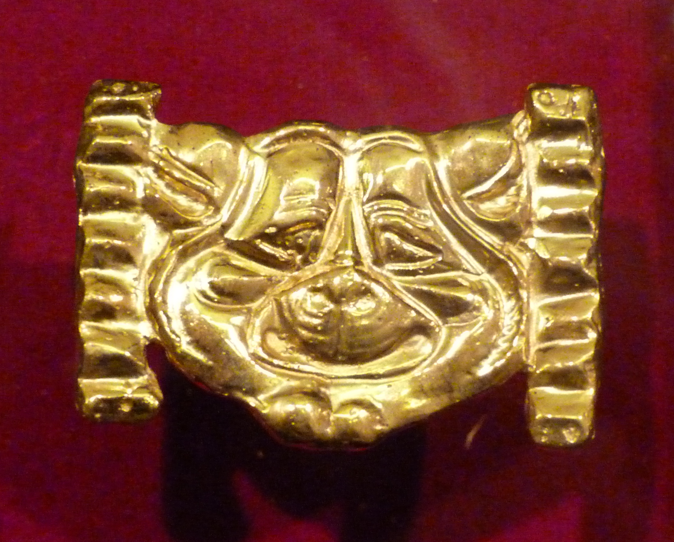 Empire of the Sun. Scytians ! Great, honorable men ! Remember the beginning of your way ! Live on the 13th of November, 2012, Budapest, VAM Design Center. Published under Creative Commons in the Metapolisz DVD line. All of the photos and vids in the Metapolisz DVD line are under Creative Commons and can be used even for commercial - for profit - purposes. Recommended citation: Derzsi Elekes Andor: Metapolisz DVD line Sources: Сенсационной называют свою находку археологи, обнаружившие в Карагандинской области «золотого человека» Sun emperor File:Sun_emperor.JPG Még mindig tagadnunk kell? Szkíta „aranyembert” találtak a kazah régészek A szkíta Napherceg Szkíta kincsekből nyílik egyedülálló kiállítás Budapesten: Badinyi-Jós Ferenc :a tatárlakai korong szövegének megfejtése: „Oltalmazónk! Minden titok dicső Nagyasszonya! Vigyázó két szemed óvjon, Napatyánk fényében!” Szathmáry megfejtése: „Egyetlen, magasztos Teljességünk leáldozóban, de Fény atyánk arca felemelkedik, ismét felragyog, s betölti dicsőségét!”